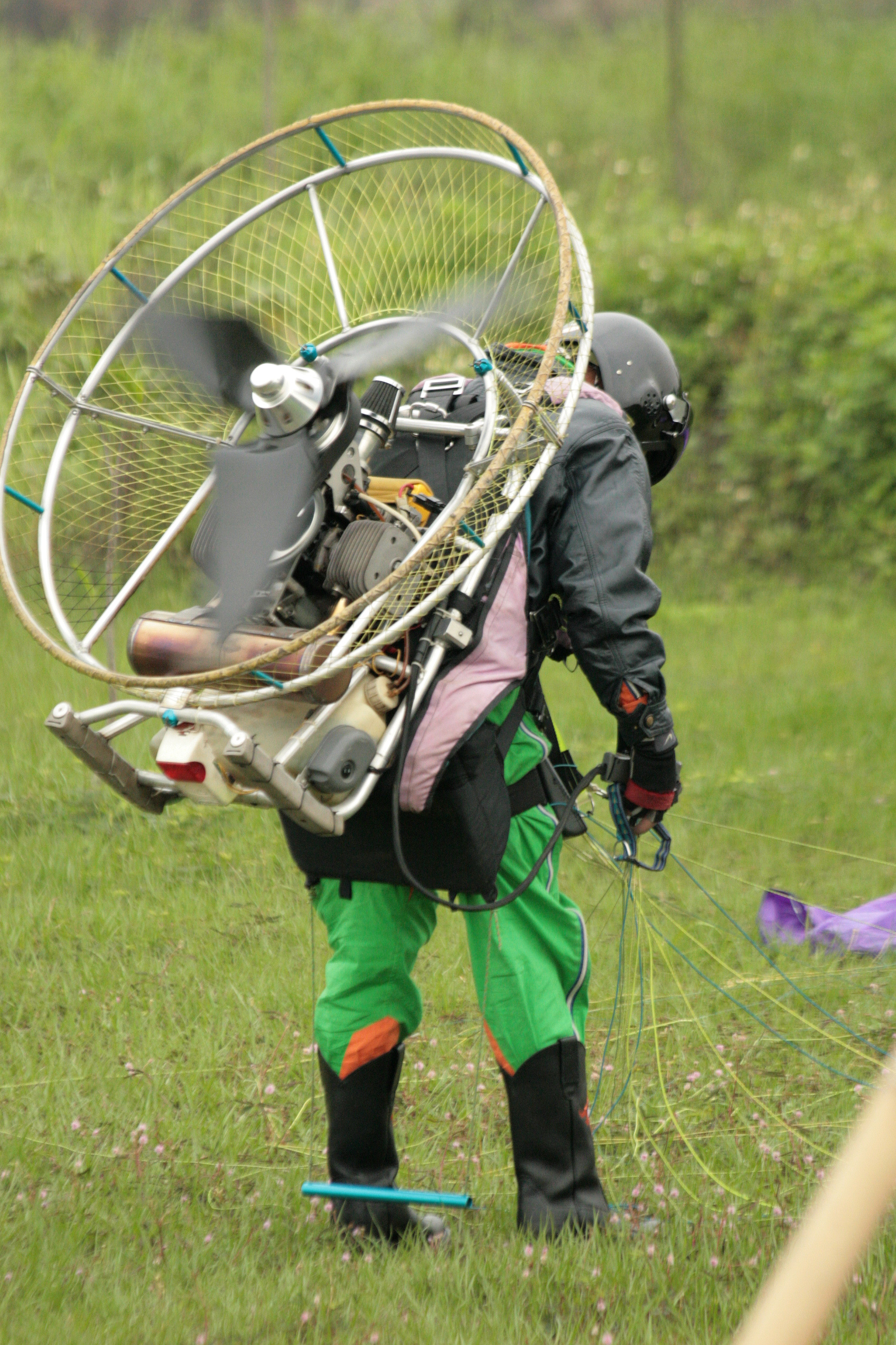 A powered paraglider pilot preparing his equipment.